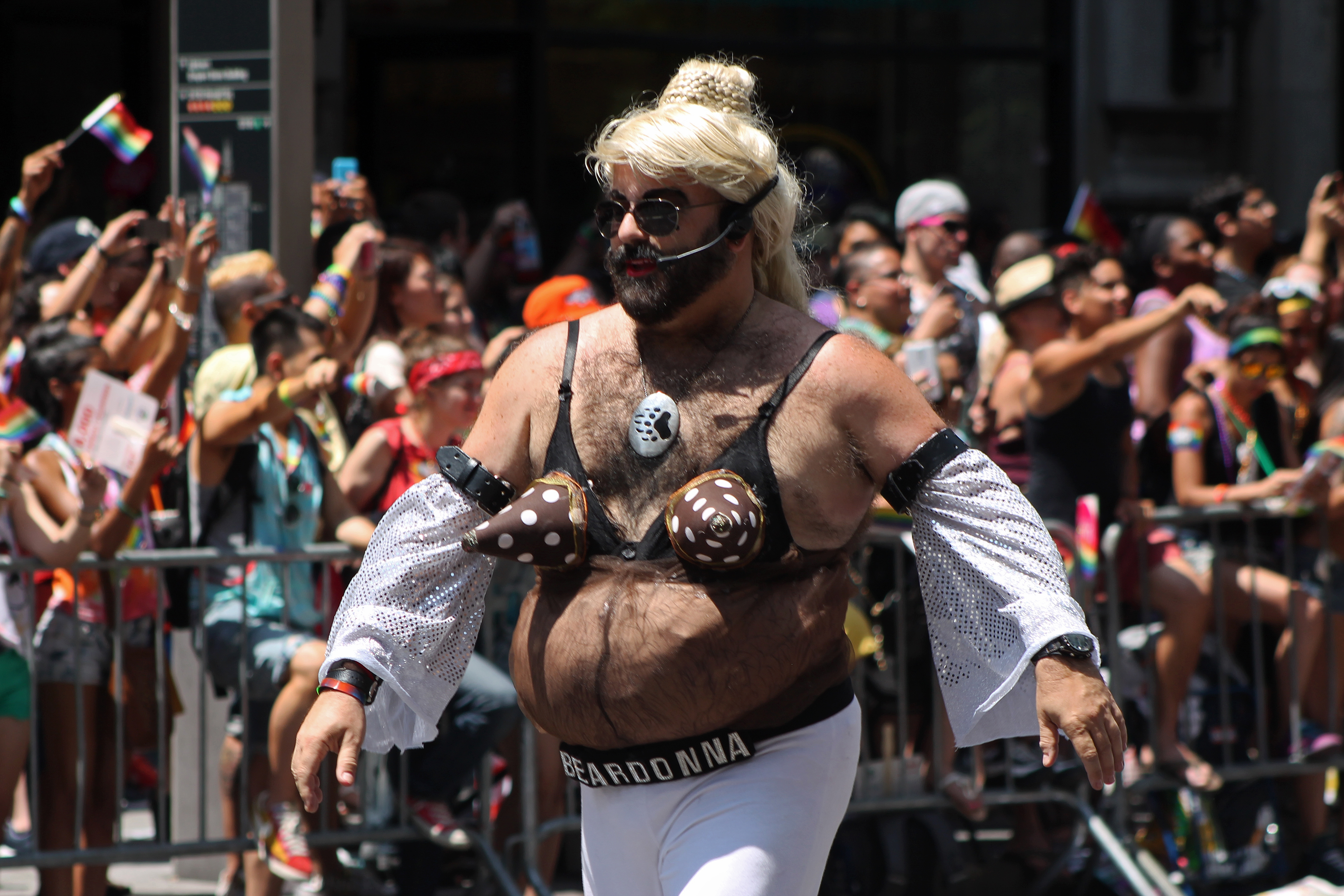 A man who identifies as "Beardonna".